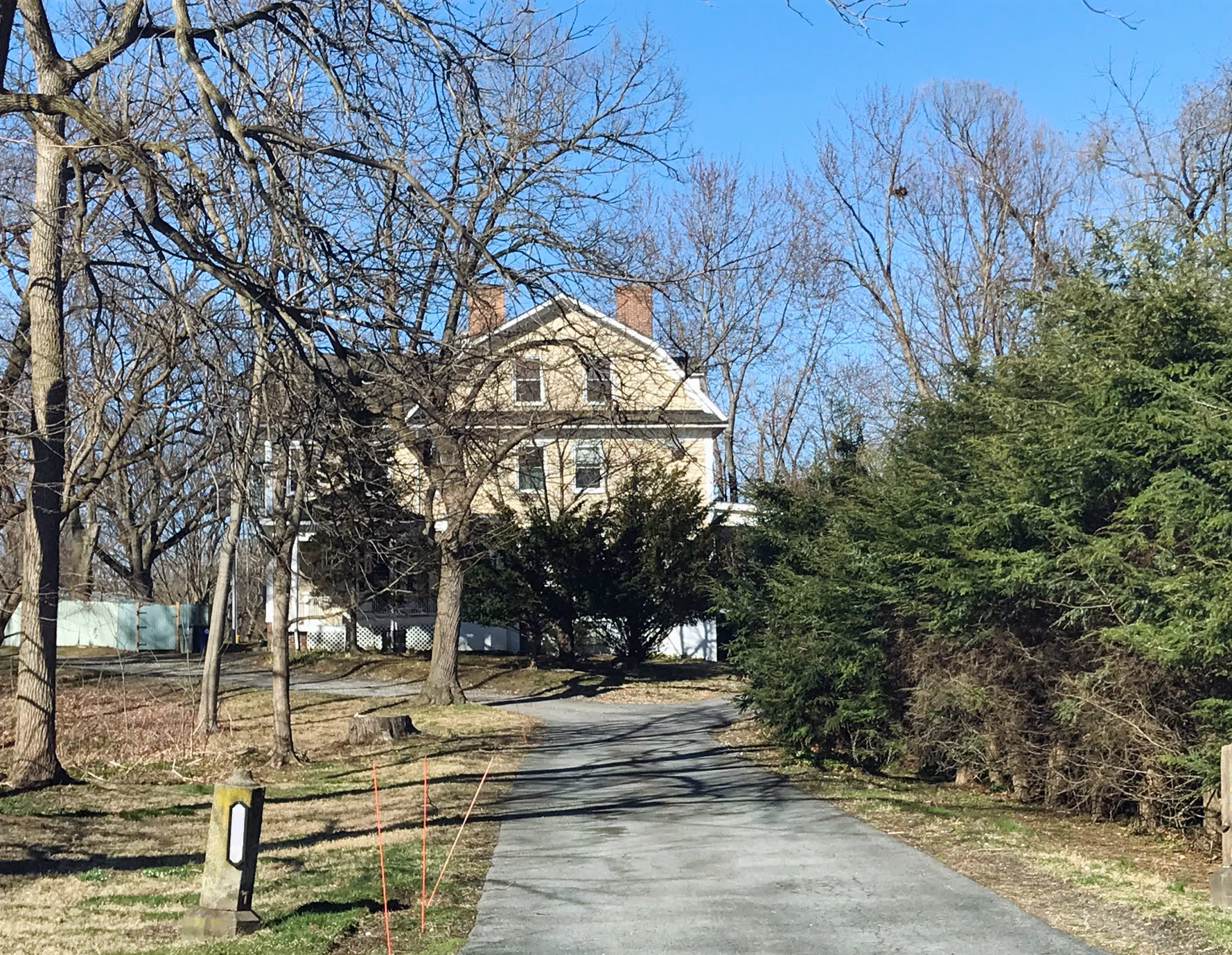 The remaining south gate leading to Fanewood, the former estate of Benjamin F. Clark and later the summer residence and studio of Lee Woodward Zeigler. Overlooks the Hudson River in New Windsor, New York.